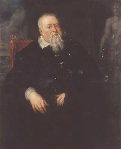 Theodore Turquet de Mayerne by Peter Paul Rubens, oil on canvas, (ca. 1630), 48 in. x 39 1/4 in. (121.9 cm x 99.7 cm)